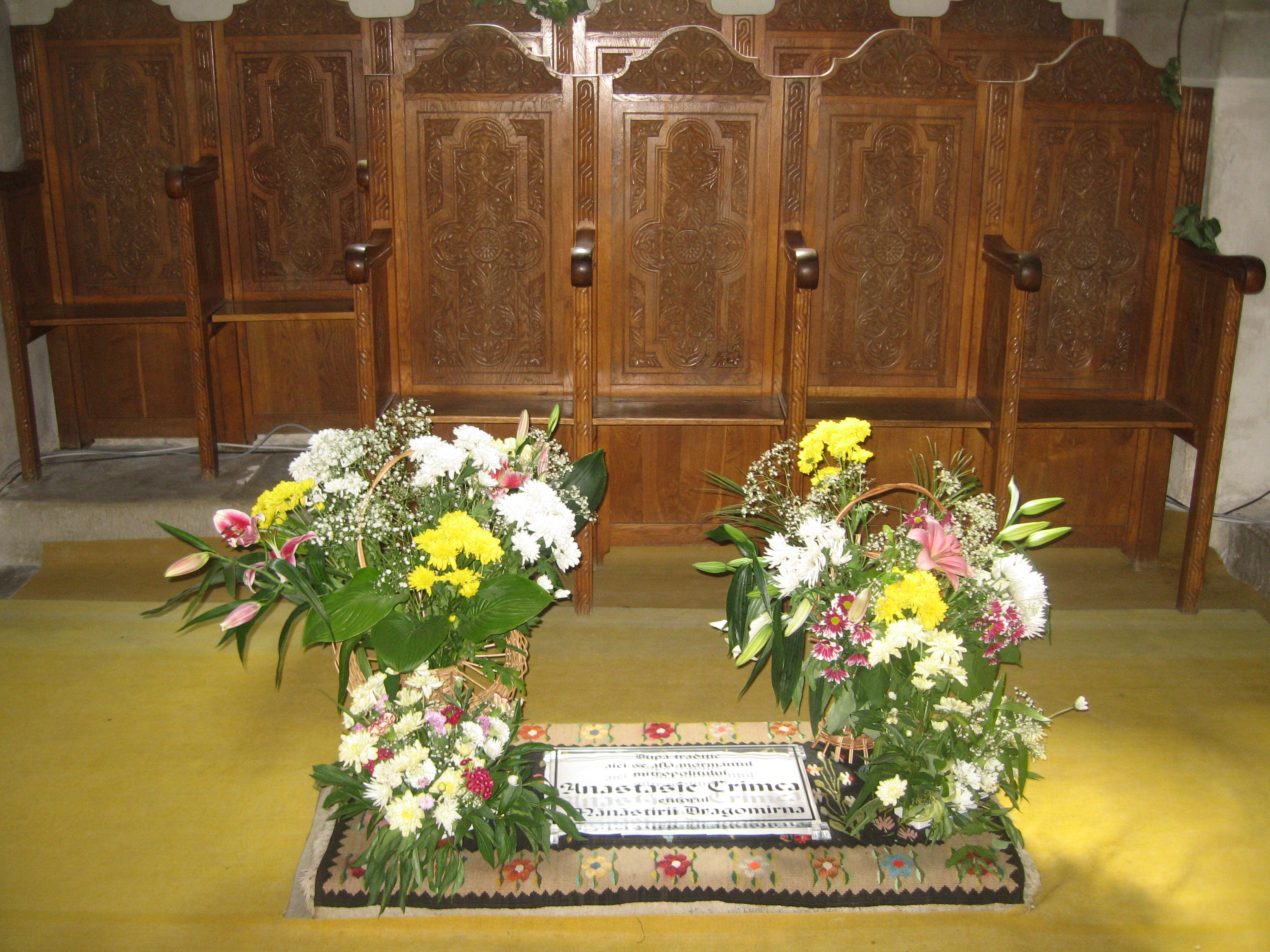 Dragomirna Monastery